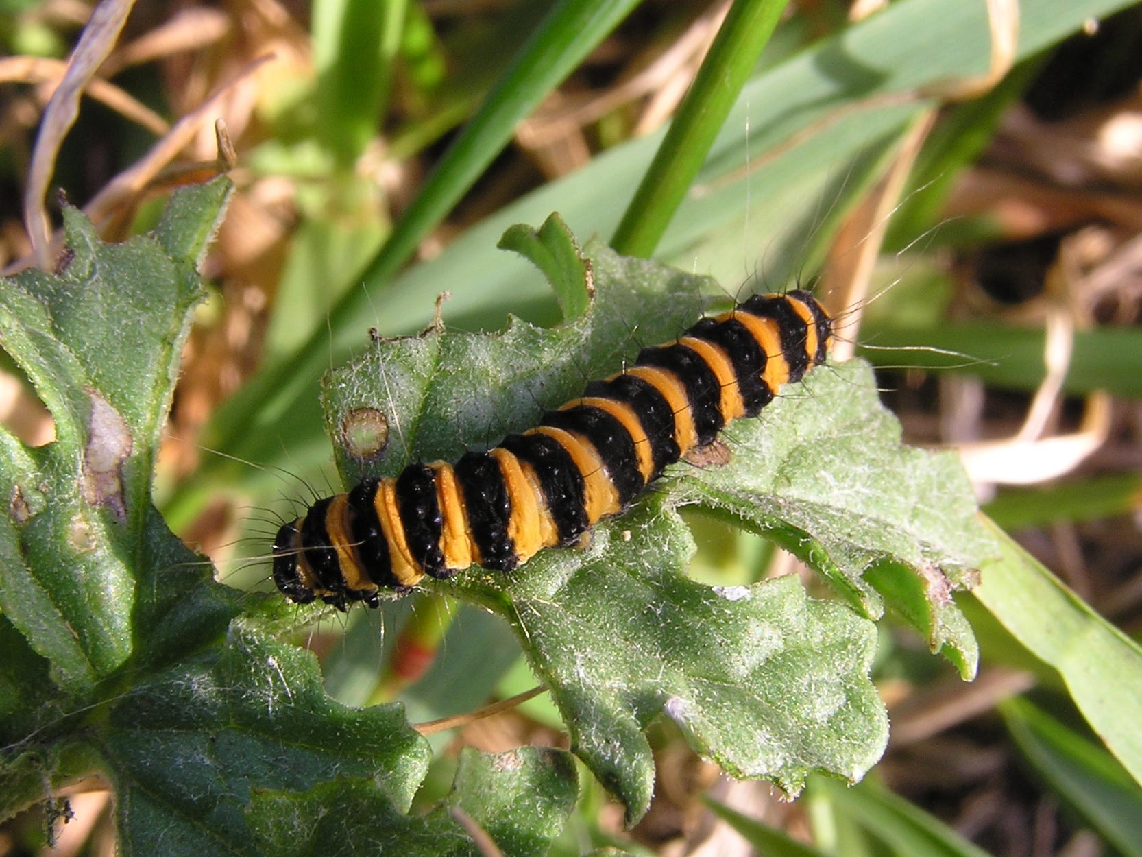 Cinnabar moth (Tyria jacobaeae) caterpillar feeding on ragwort plant, Wellington, New Zealand.